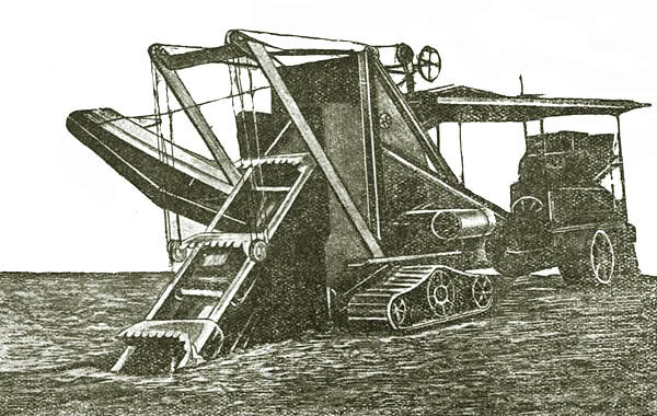 Soviet semi-tracked trencher of the interwar period MKII (SSSM-750).